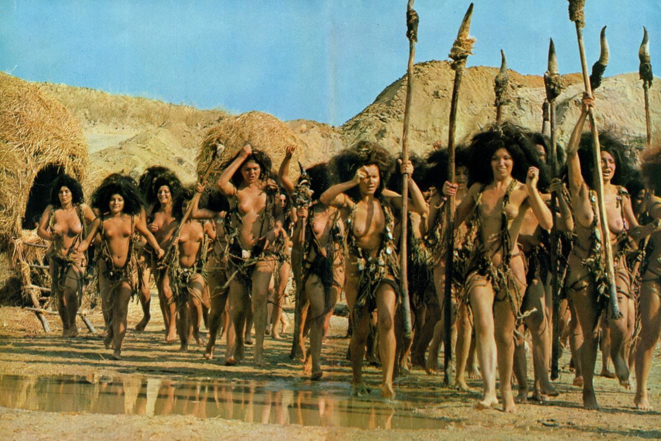 Still from the Italian comedy fantasy film Quando le donne avevano la coda (1970), from the February 1970 Playmen page 136.